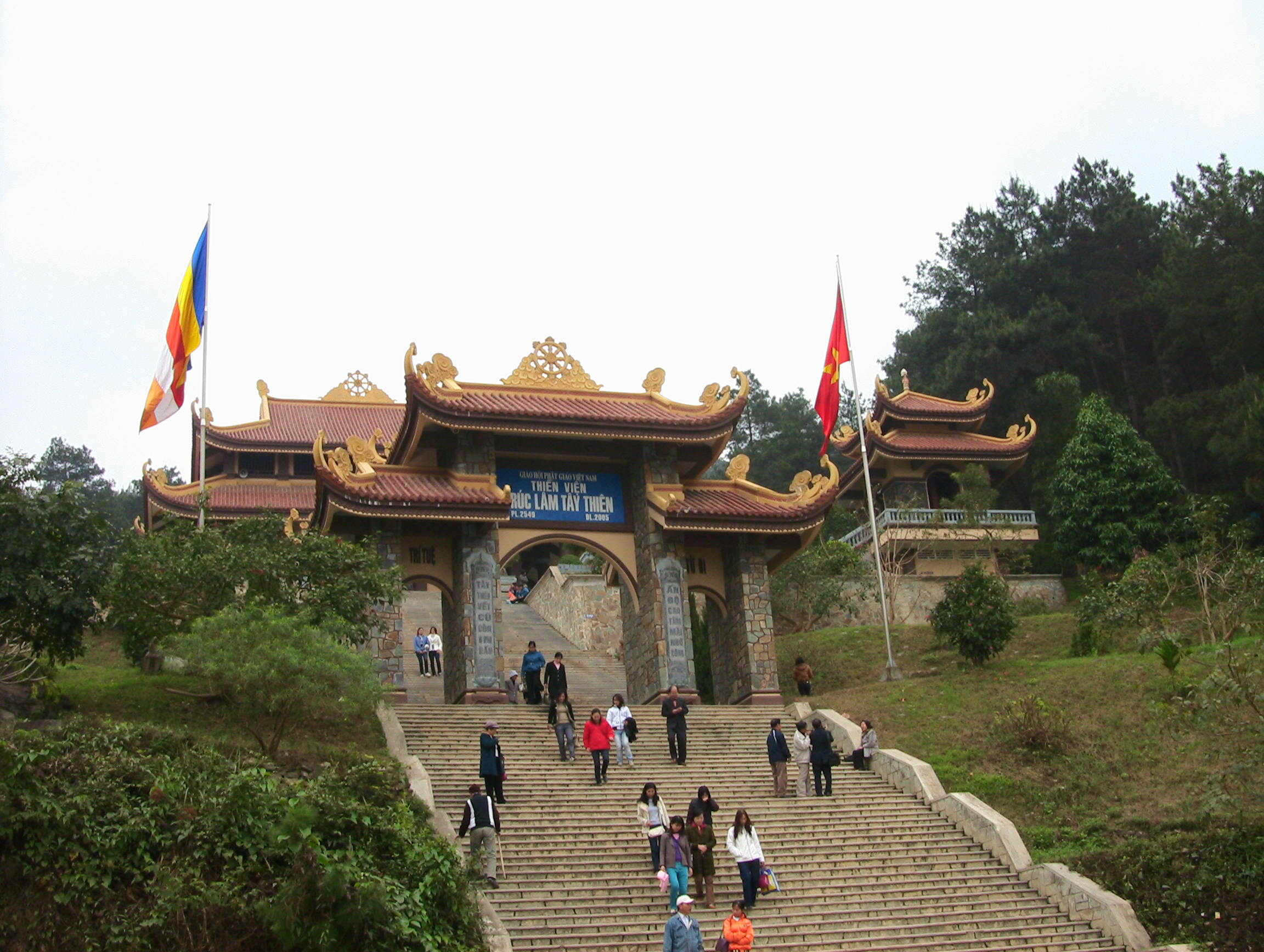 Zen Monastery Truc Lam Tay Thien in Vinh Phuc Province